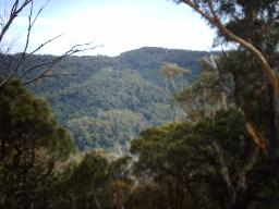 Kembla West seen from Mount Kembla summit track